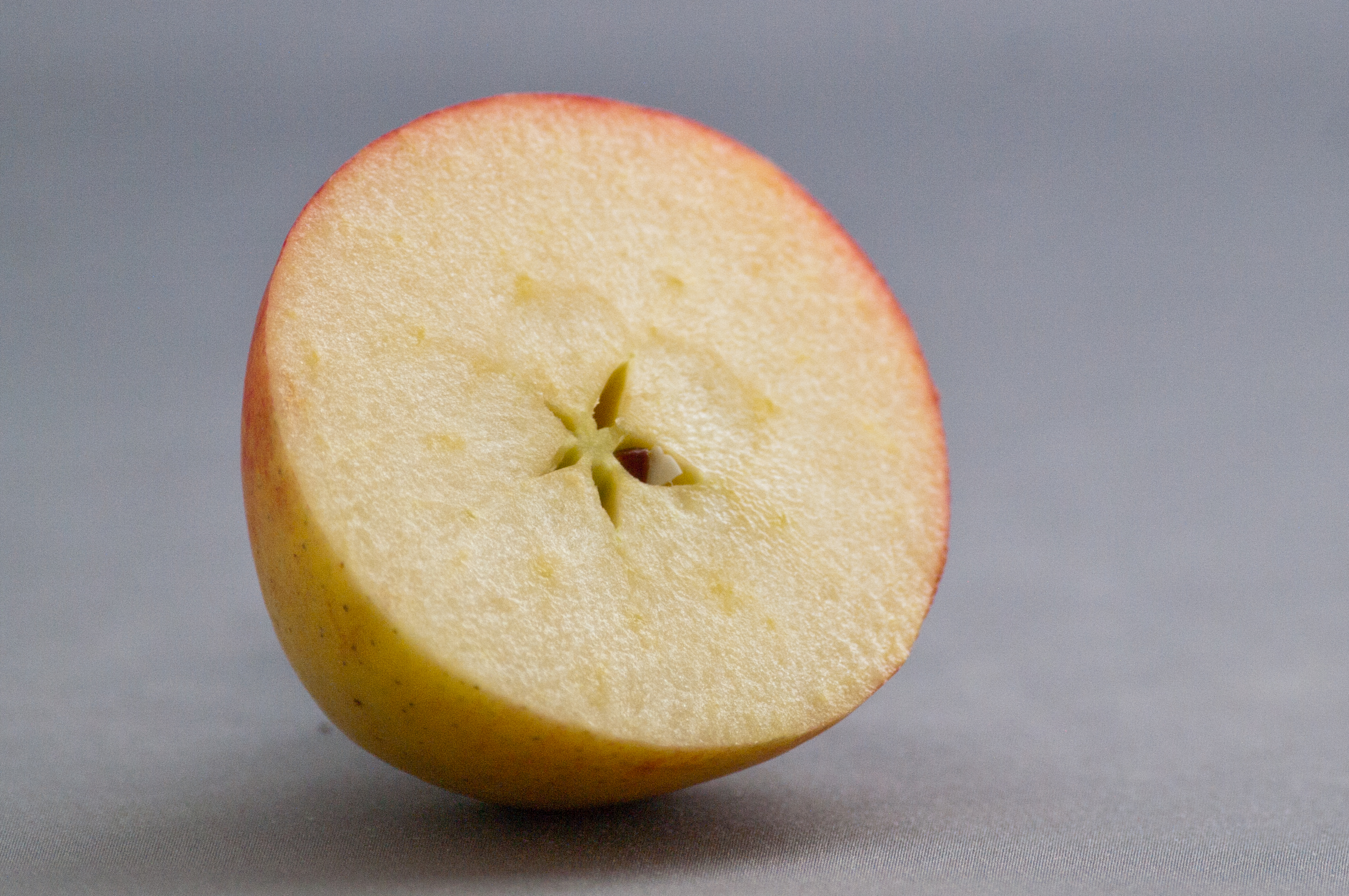 Scifresh apple, cut in half